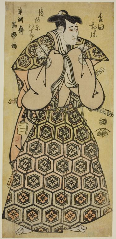 Ukiyo-e hosoban print of the kabuki actor Morita Kan'ya VIII as Yura Hyōgonosuke